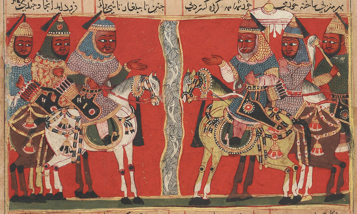 Siyavash faces Afrasiyab across the Jihun River Shahnama, Sultanate of Delhi, 1450 Master of the Jainesque Shahnama. Date: ca. 1425–50 Culture: India, possibly Malwa. Medium: Ink and opaque watercolor on paper. Dimensions: Page: 12 3/8 x 9 5/8 in. (31.5 x 24.5 cm) Image: 4 5/16 x 7 13/16 in. (11 x 19.8 cm)